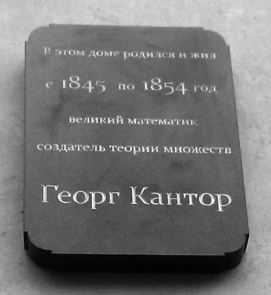 Marble plaques. Building 24 (view from the yard), 11-line, Vasilievsky Island, Saint-Petersburg, Russia. The title on the memorial plaque: "In this building was born and lived from 1845 till 1854 the great matematician and author of the set theory Georg Cantor"